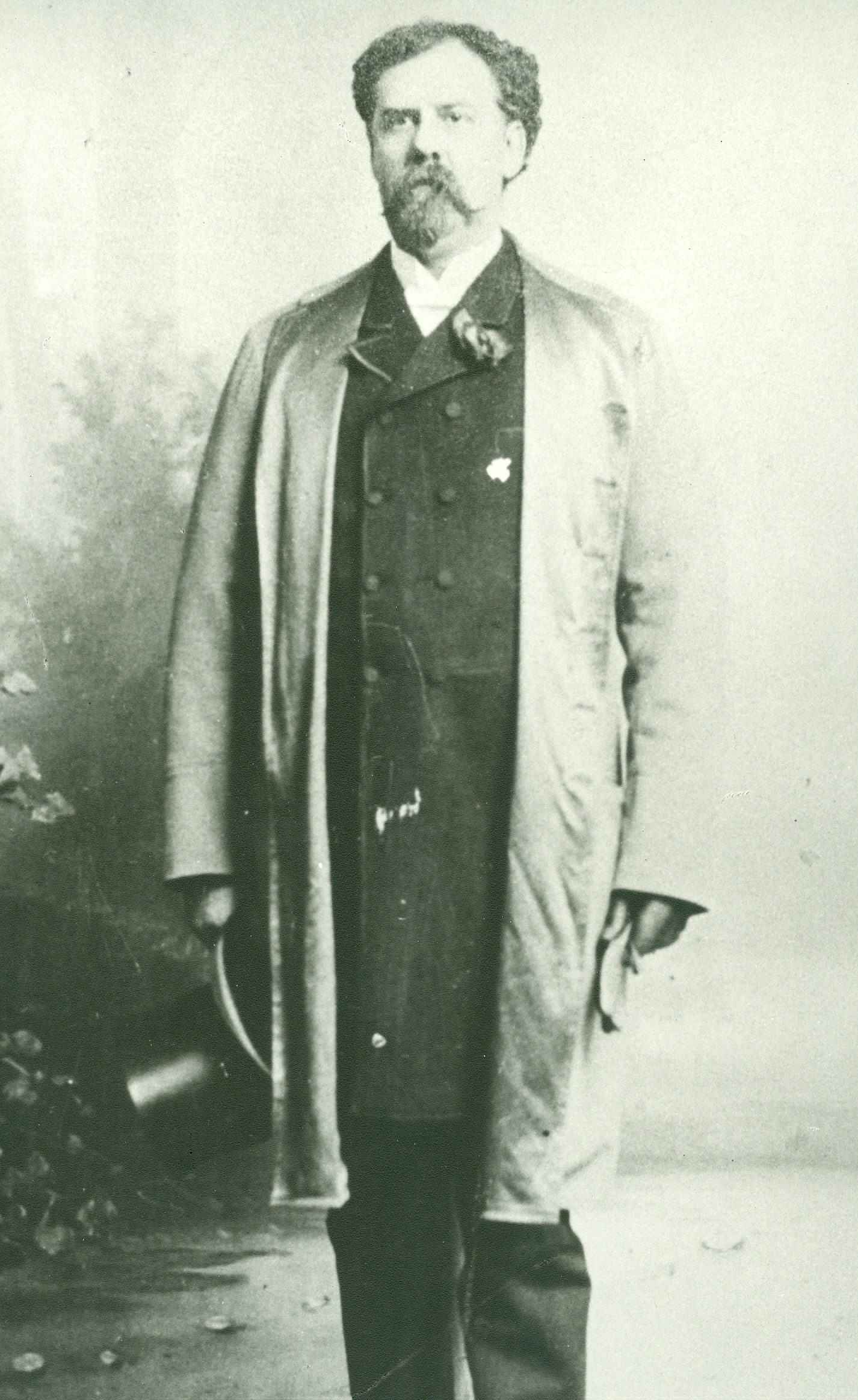 Swedish magician, 1890's